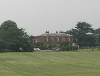 Hall in a Field. Dovecliff Hall is now a hotel and restaurant.